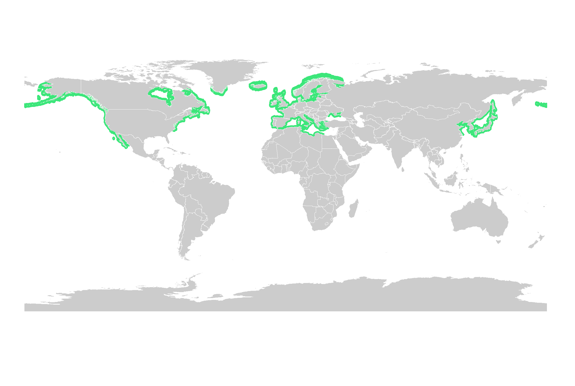 Distribution map of Zostera marina from IUCN. Description here.